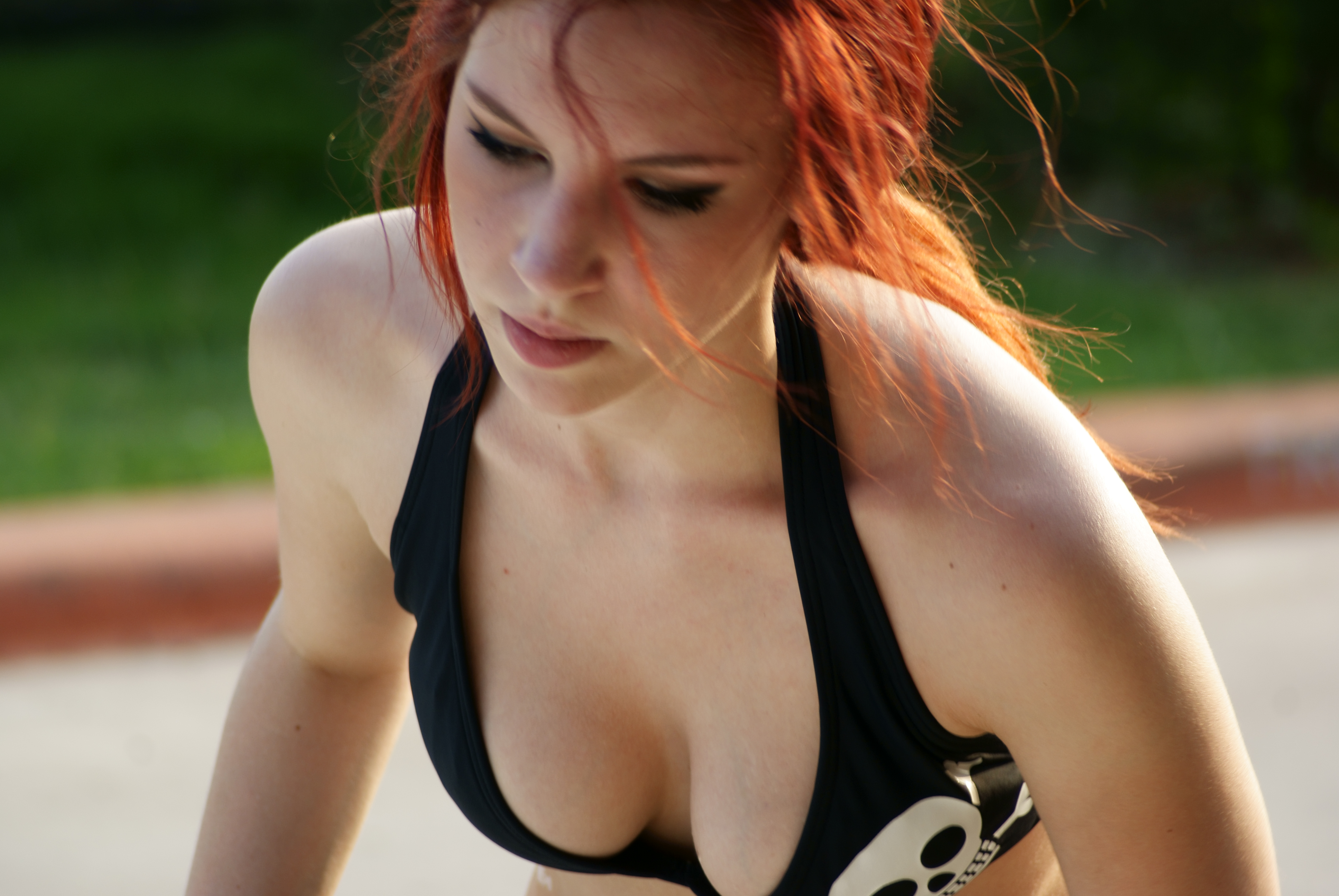 Stephen Hamende and Car Wash at Spinners.